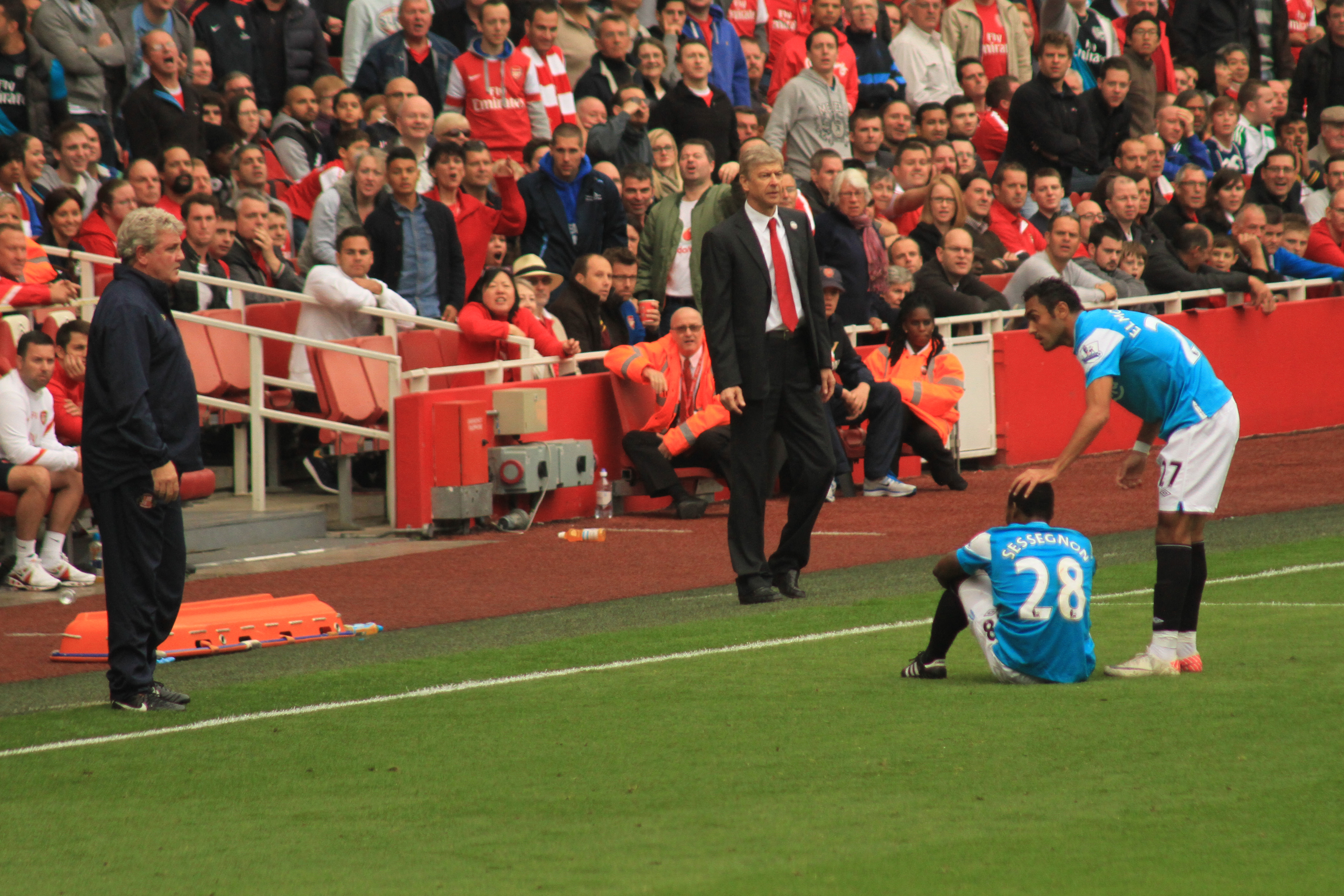 From left to right, Sunderland manager Steve Bruce, Arsenal manager Arsene Wenger, Sunderland players Stephane Sessegnon and Ahmed Elmohamady.